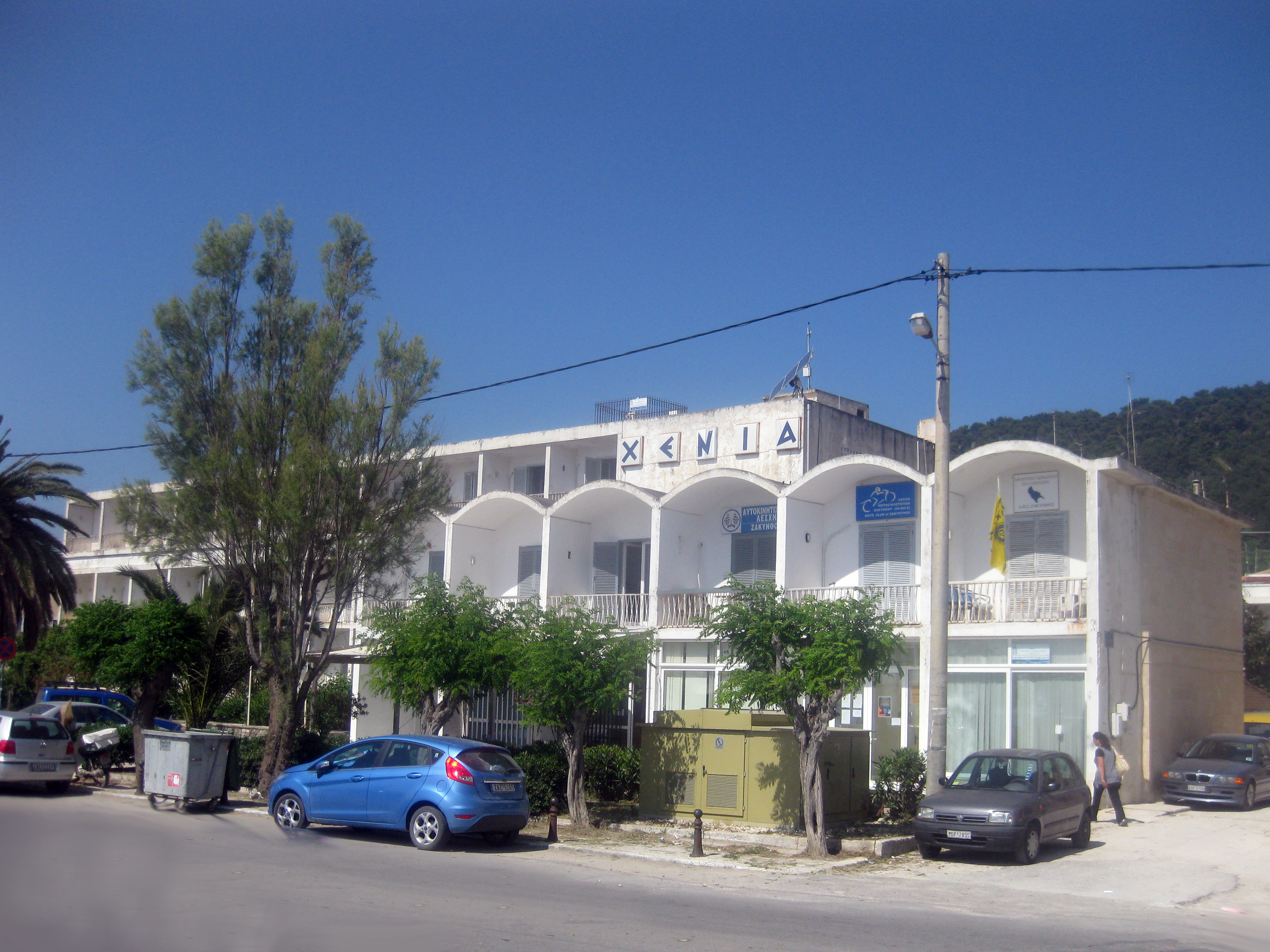 Former Hotel Xenia in Zakynthos